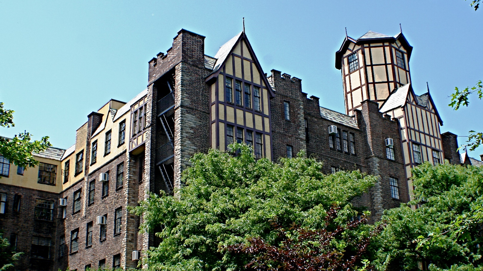 Apartment block at the top of Washington Heights